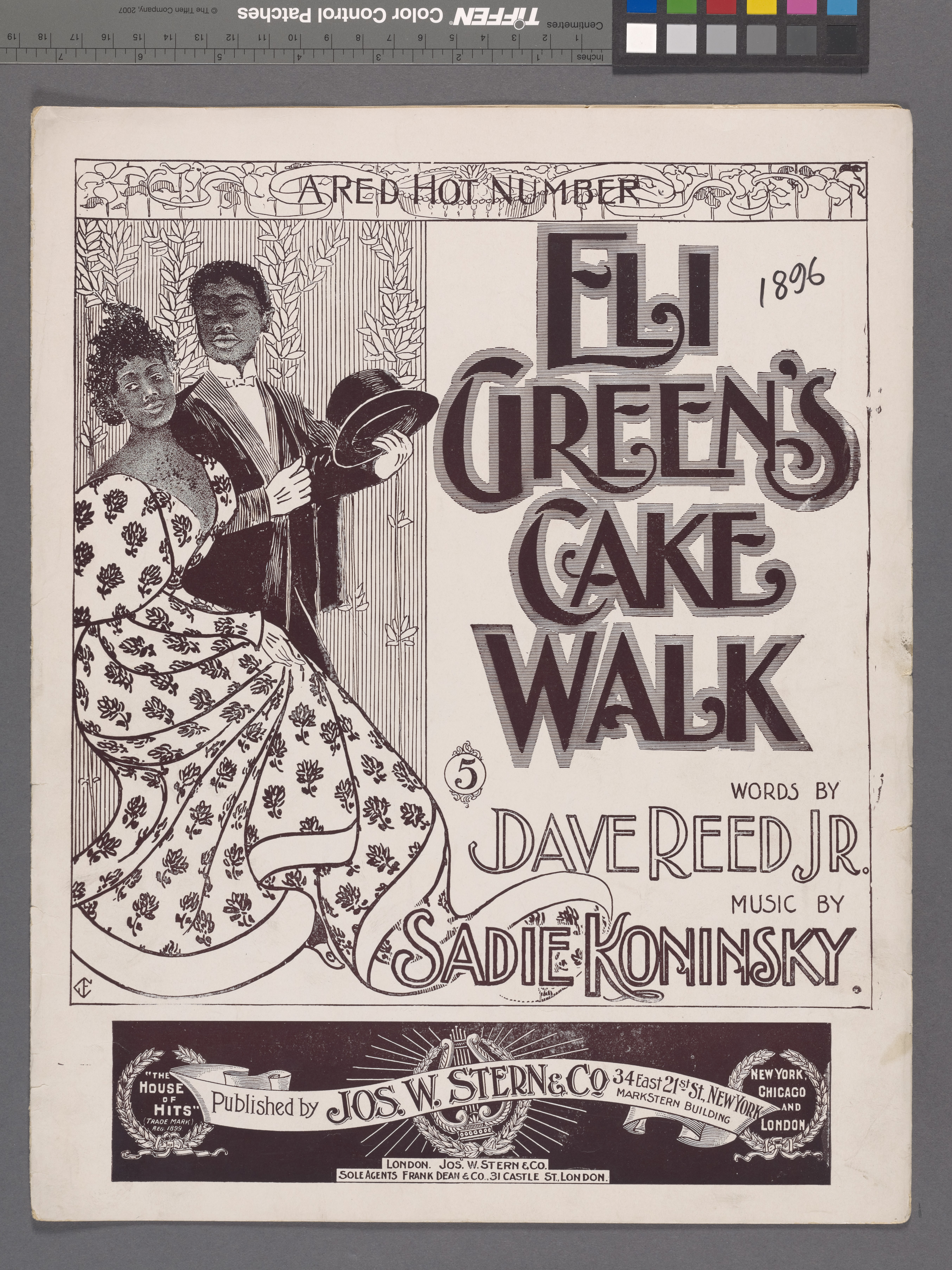 Summary: In ethnic stereotyped language, the narrator describes African Americans enjoying dancing cakewalks. Page 7 has music for piano only labeled Cake Walk. Cover includes drawing of an African American male and female couple, arm in arm, apparently doing a cake walk (their feet obscured by the woman's dress). Illustrator's device at left below woman's dress. On cover: A red hot number. Statement of responsibility : words by Dave Reed Jr. ; music by Sadie Koninsky.